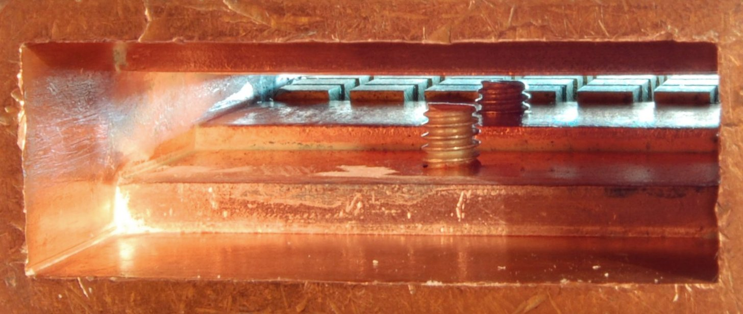 View into a waffle-iron filter through a two-section matching transformer (with a tuning screw in each section). There is a similar transformer on the other side of the waffle-iron section. The waffle-iron itself consists of a 7×7 array of pegs on each of the two broad walls of the waveguide. The picture is a composite of four similar photographs focussed to different depths.